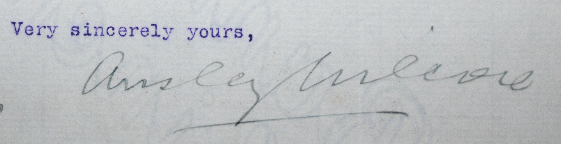 Signature from a letter to George Wilcox, Ansley's Uncle, on the letterhead of Wilcox & Bull, Attorneys at law.